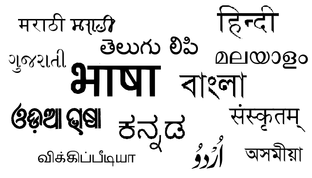 Word cloud: The word "Marathi" in Devnagari script and Modi scripts. The words "Bhasha", "Sanskritam" and "Hindi" in Devnagari script. The words "Gujarati", "Urdu", "Odia", "Malayalam", "Kannada", "Tamil", "Telugu", "Bengali", and "Assamese" in their respective scripts.